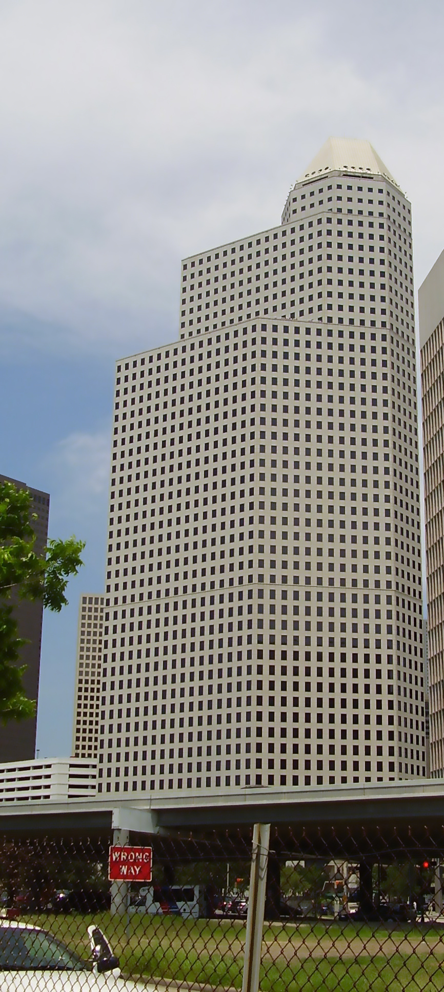 Continental Center I in Cullen Center, Downtown Houston - Former headquarters of Continental Airlines